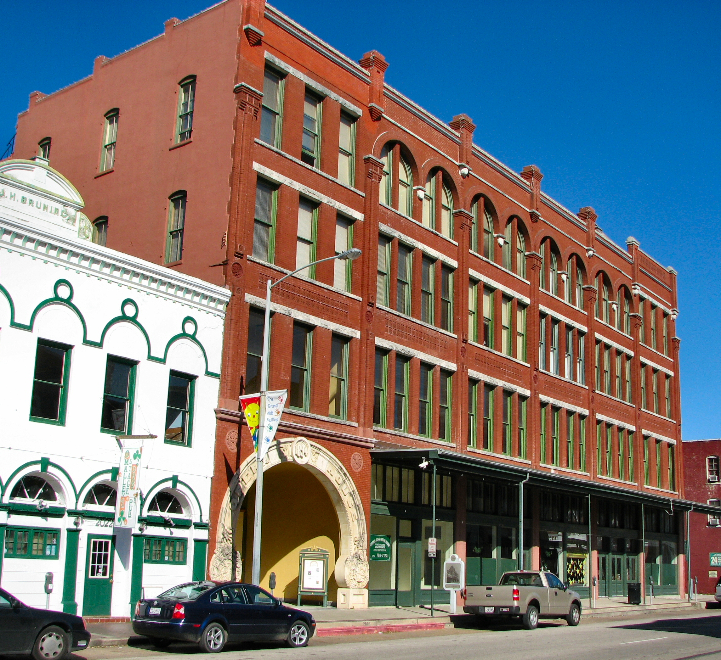 Photo of 1894 Grand Opera House in Galveston, Texas